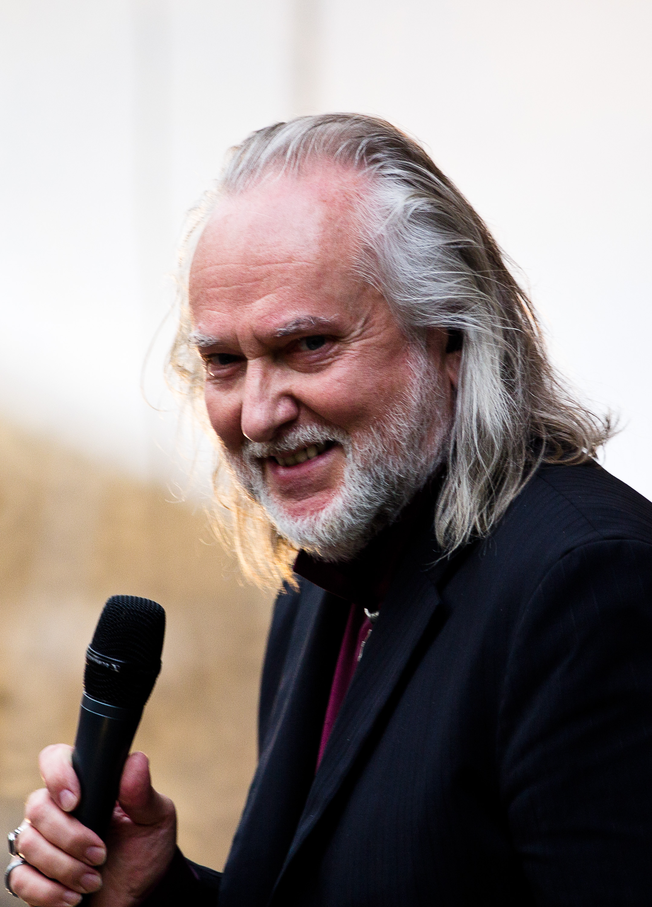 The German musician Joachim Witt at the Nocturnal Culture Night 9 2014 in Deutzen/Germany